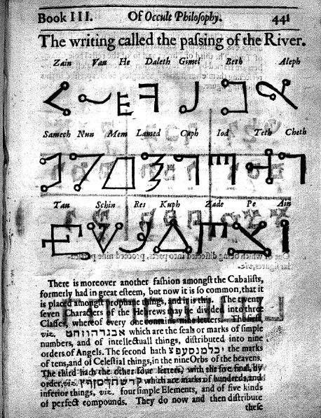 Heinrich Cornelius Agrippa's Passing of the River script, from Three Books of Occult Philosophy